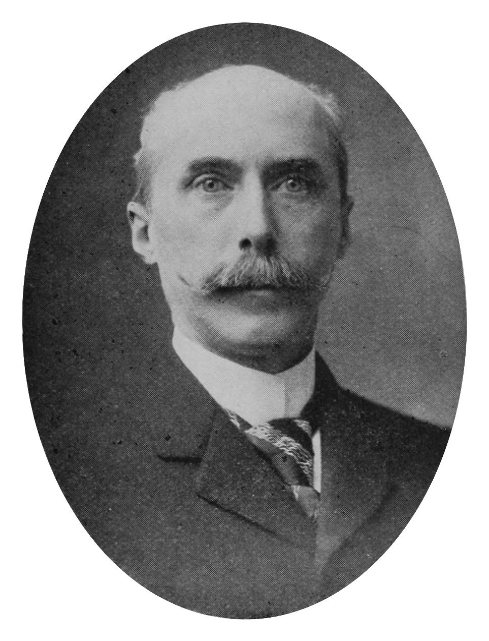 William Douglas, Congressman from New York.